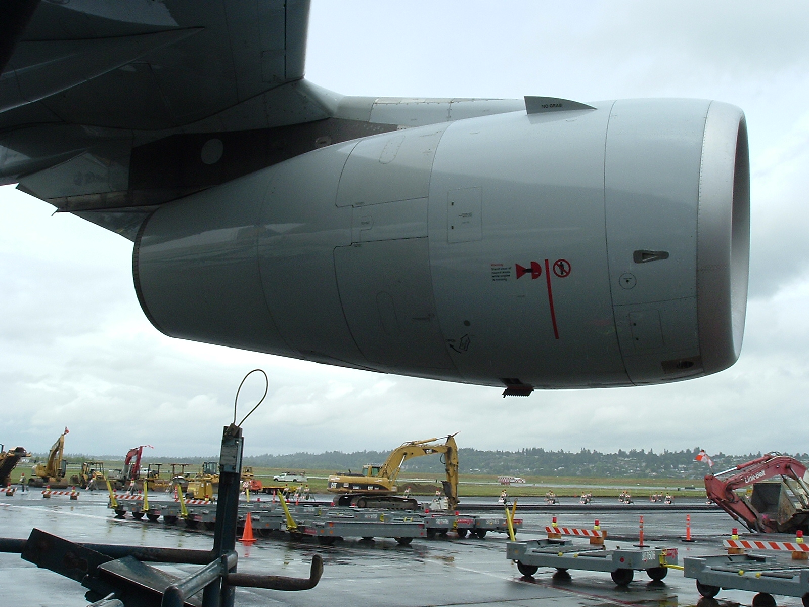 Fuel hose single-point adapters are between the two engines on both sides.... most exciting to fuel. Comment : At Portland International Airport according to Flickr set.